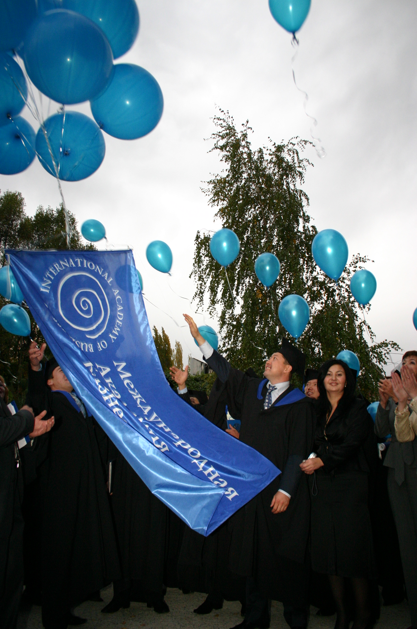 MBA Graduation in International Academy of Business